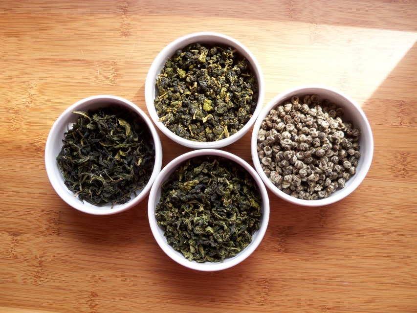 Four GreenTeas in White Bowls #1